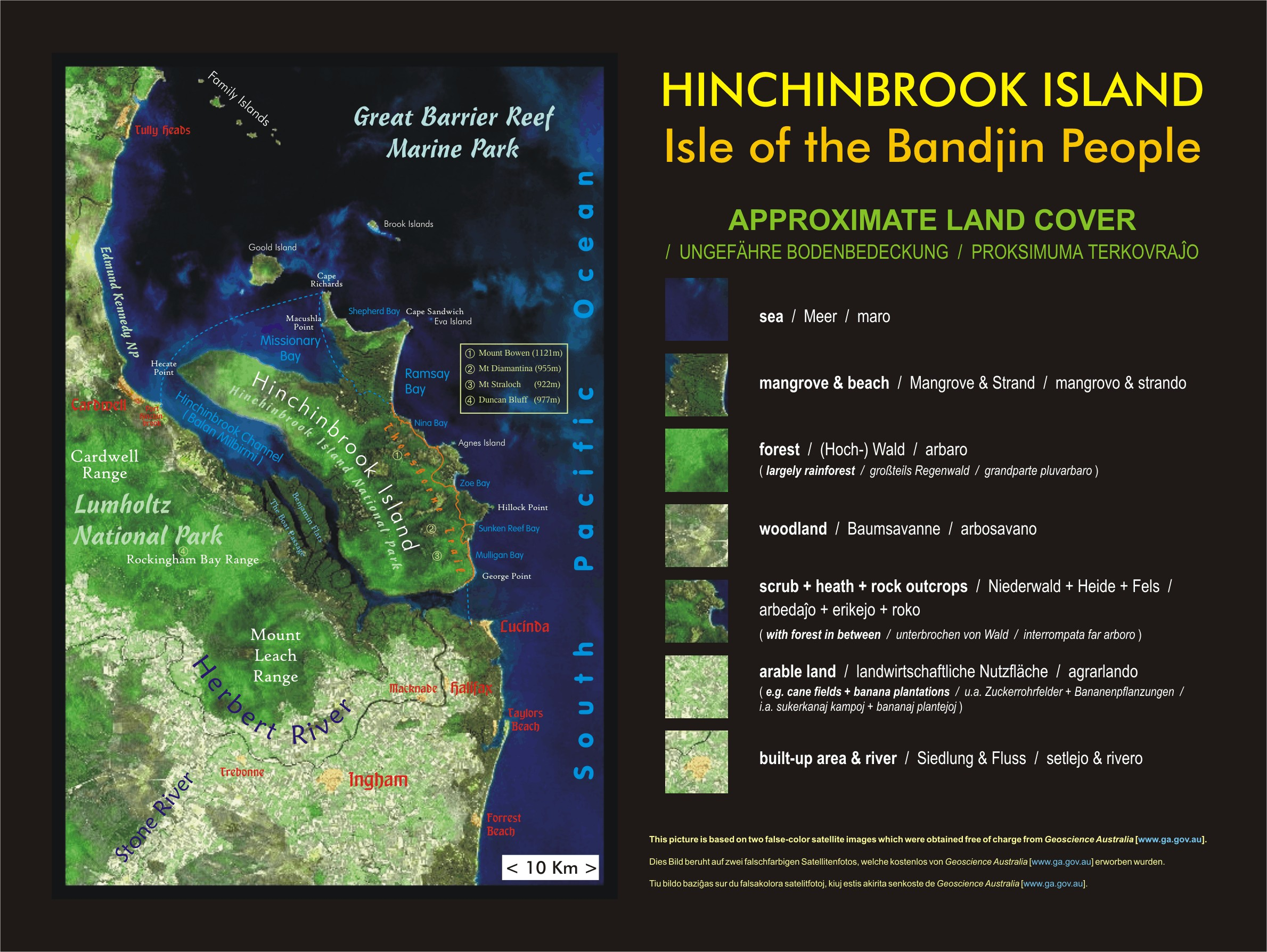 The map shows a recolored and labeled satellite image of Hinchinbrook Island and the nearby Australian mainland.